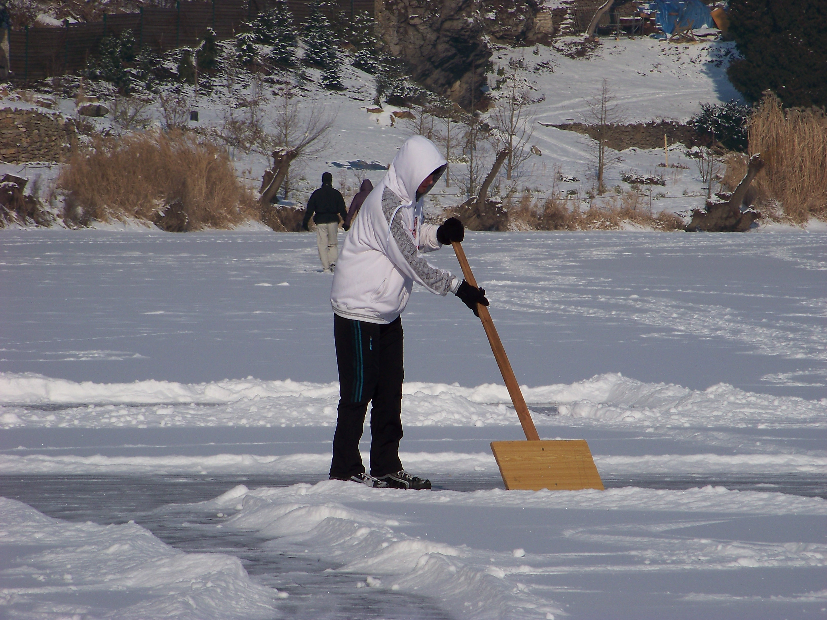 Bechyně, Tábor District, South Bohemian Region, the Czech Republic. Frozen Lužnice river near the monastery.